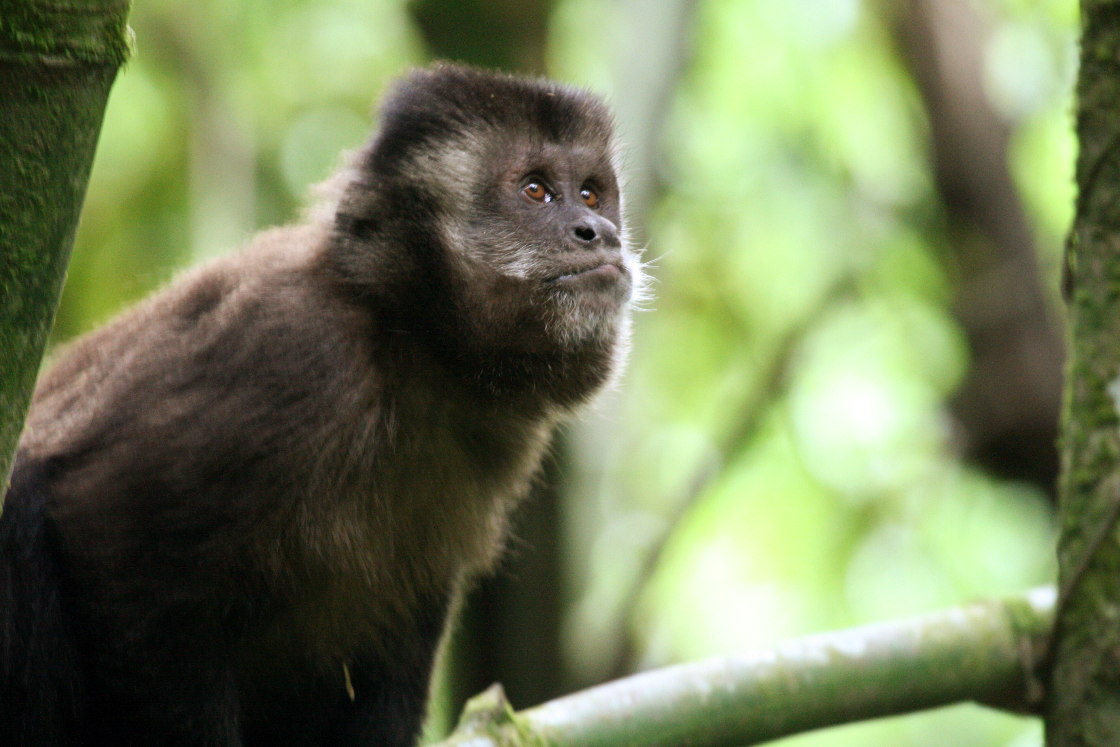 Black capuchin (Sapajus nigritus) in Brazil.